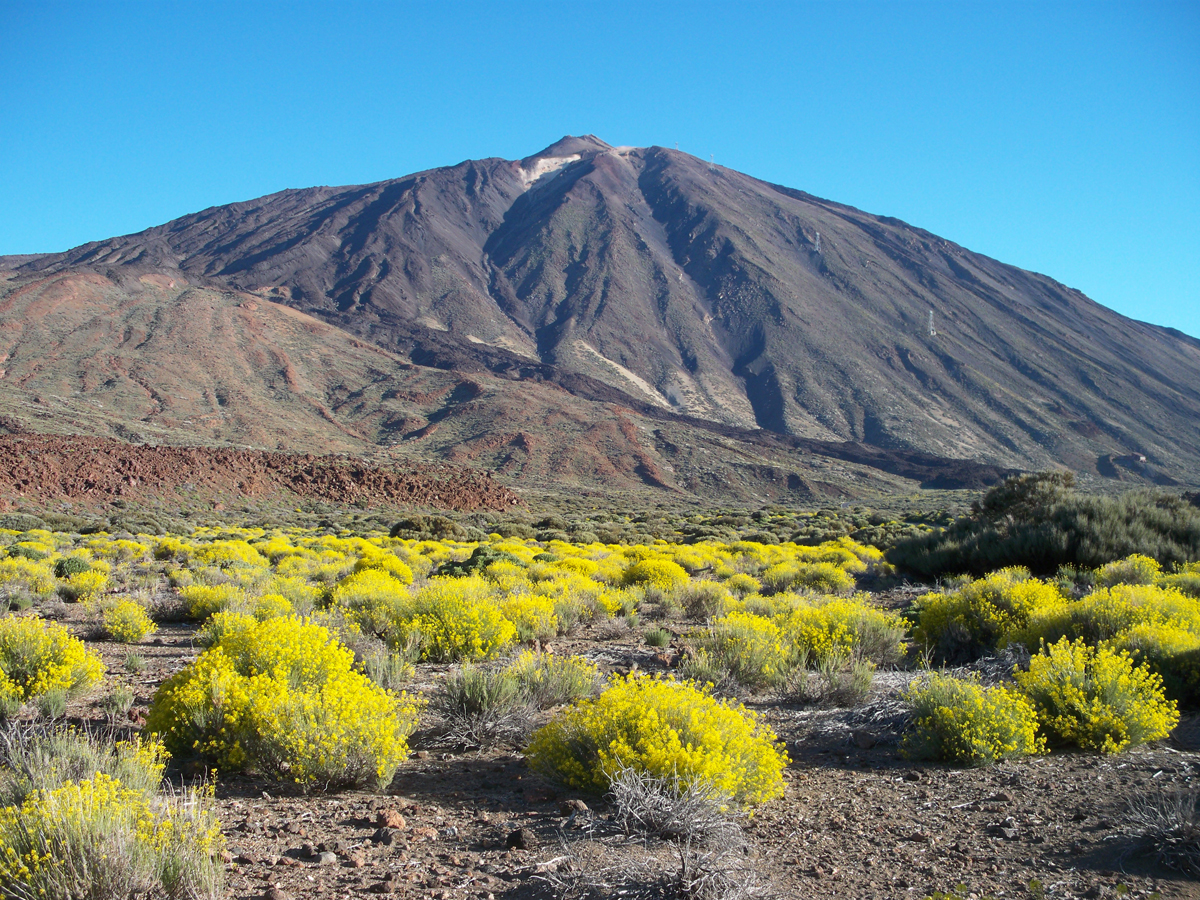 Hierba Pajonera (Descurainia bourgaeana)